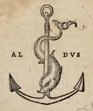 Manuzio's mark